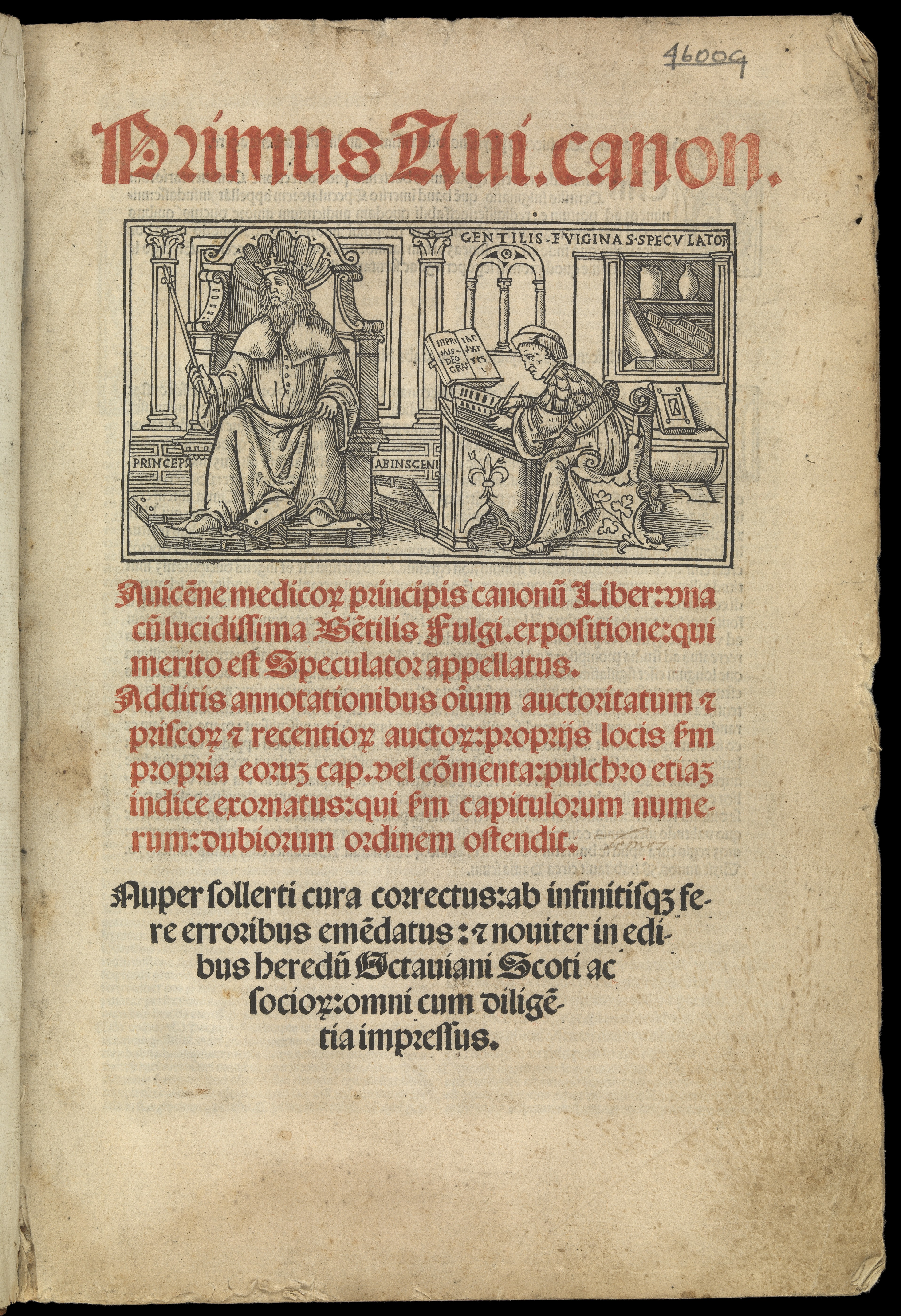 Primus (et secundus) Avicennae . Rare Books